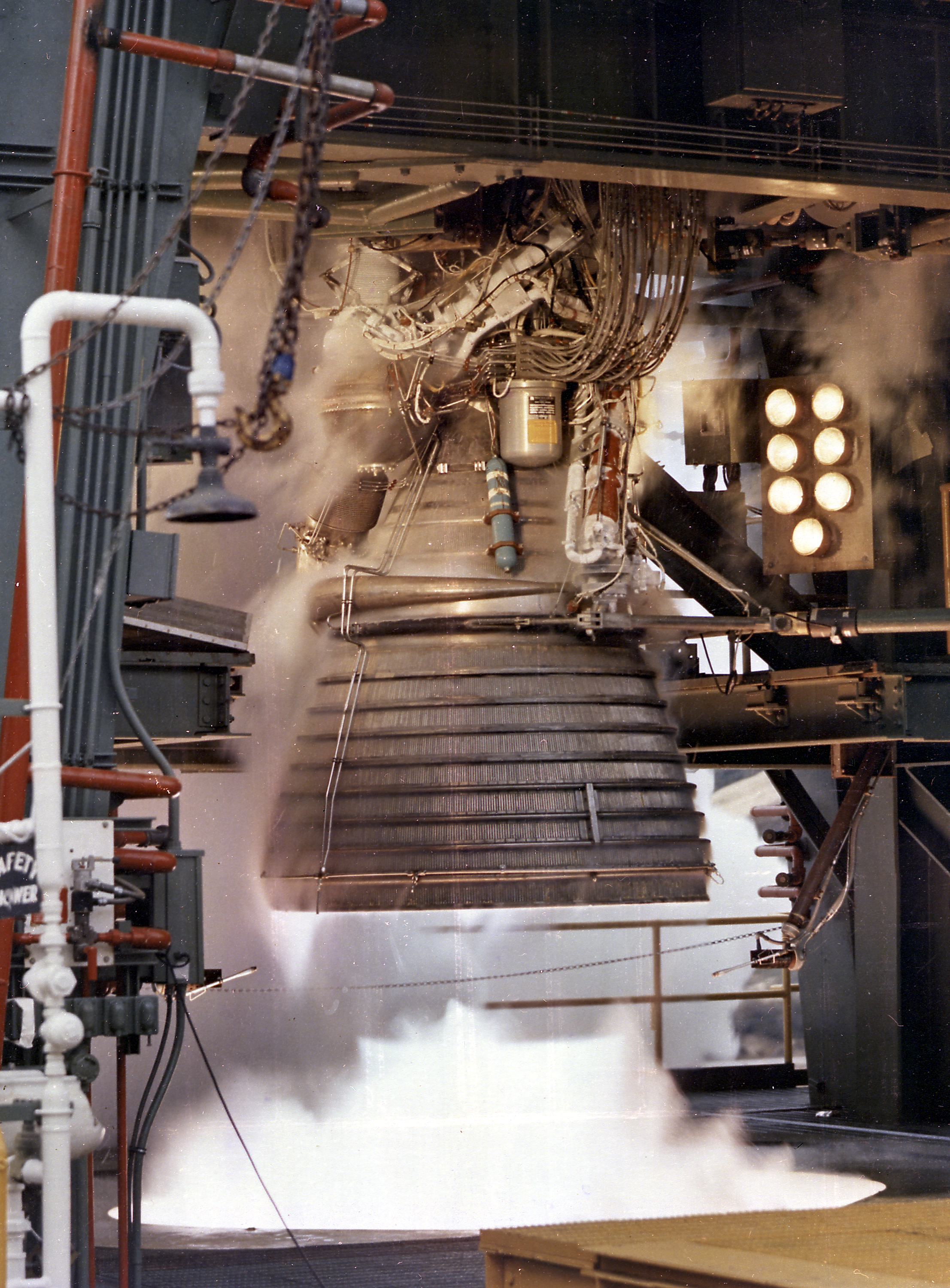 A J-2 engine, used on the S-II and S-IVB stages of the Saturn rockets used during Project Apollo, undergoes a test firing.